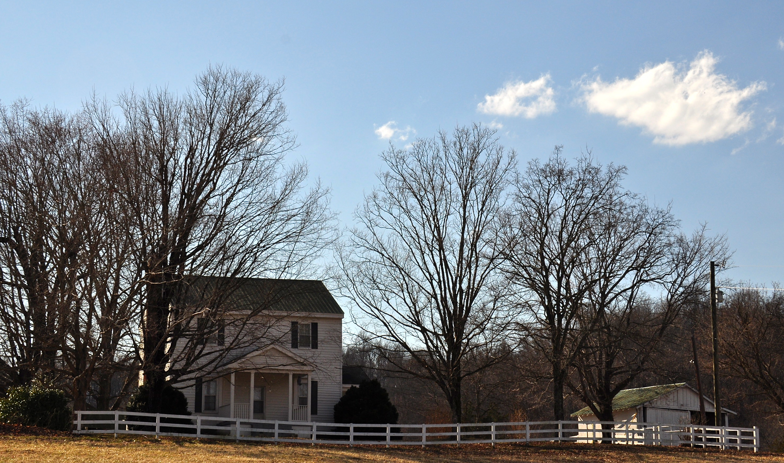 Located near Burwood, Tennessee NRHP Reference # 88000338